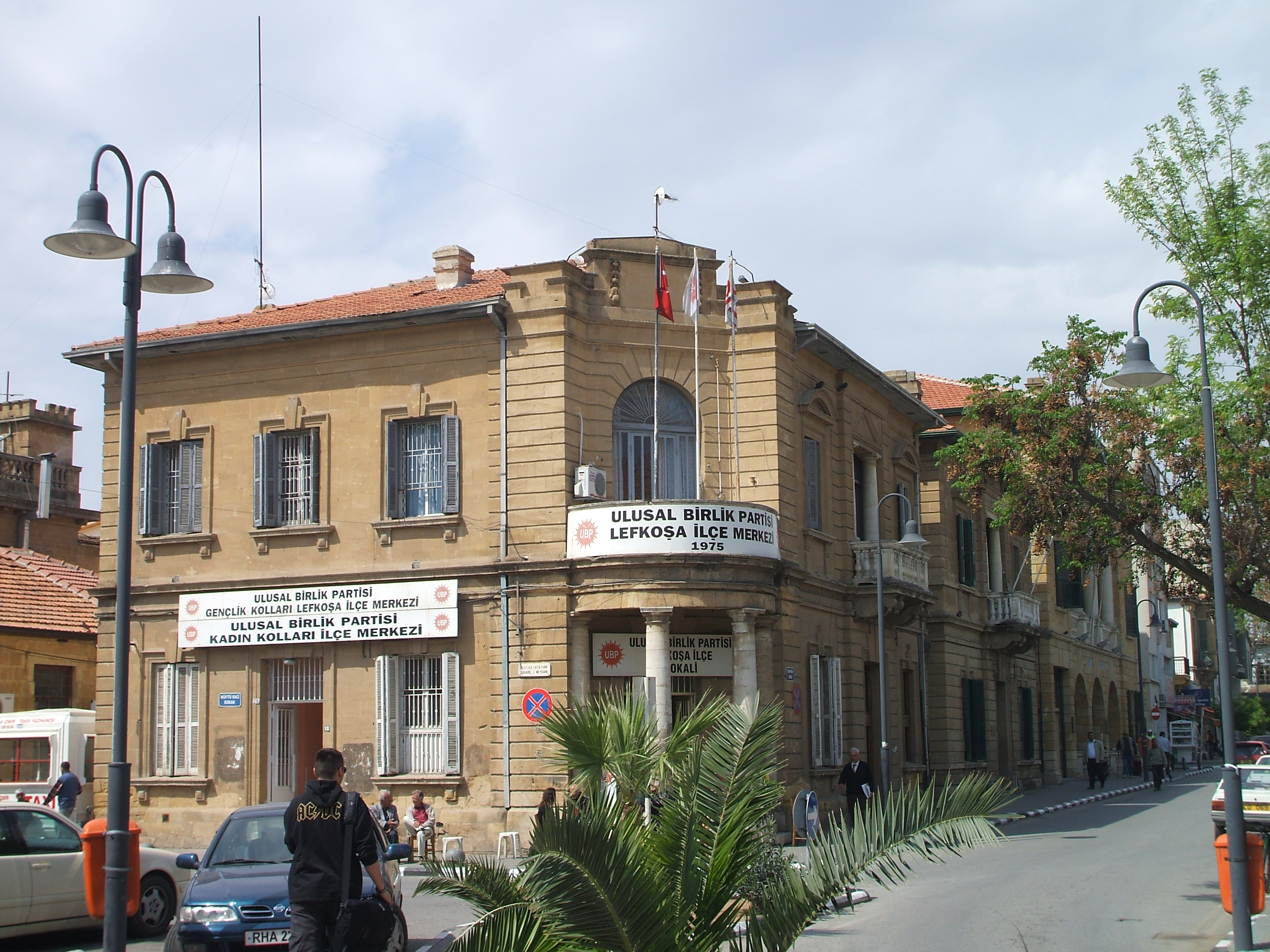 The city of Nicosia, Cyprus, on 3 April 2008, the day when the Green Line at Ledra Street was reopened: Atatürk Square in the northern part of the city